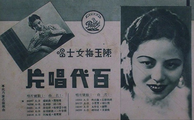 Cover of Chen Yumei's record released by Pathé